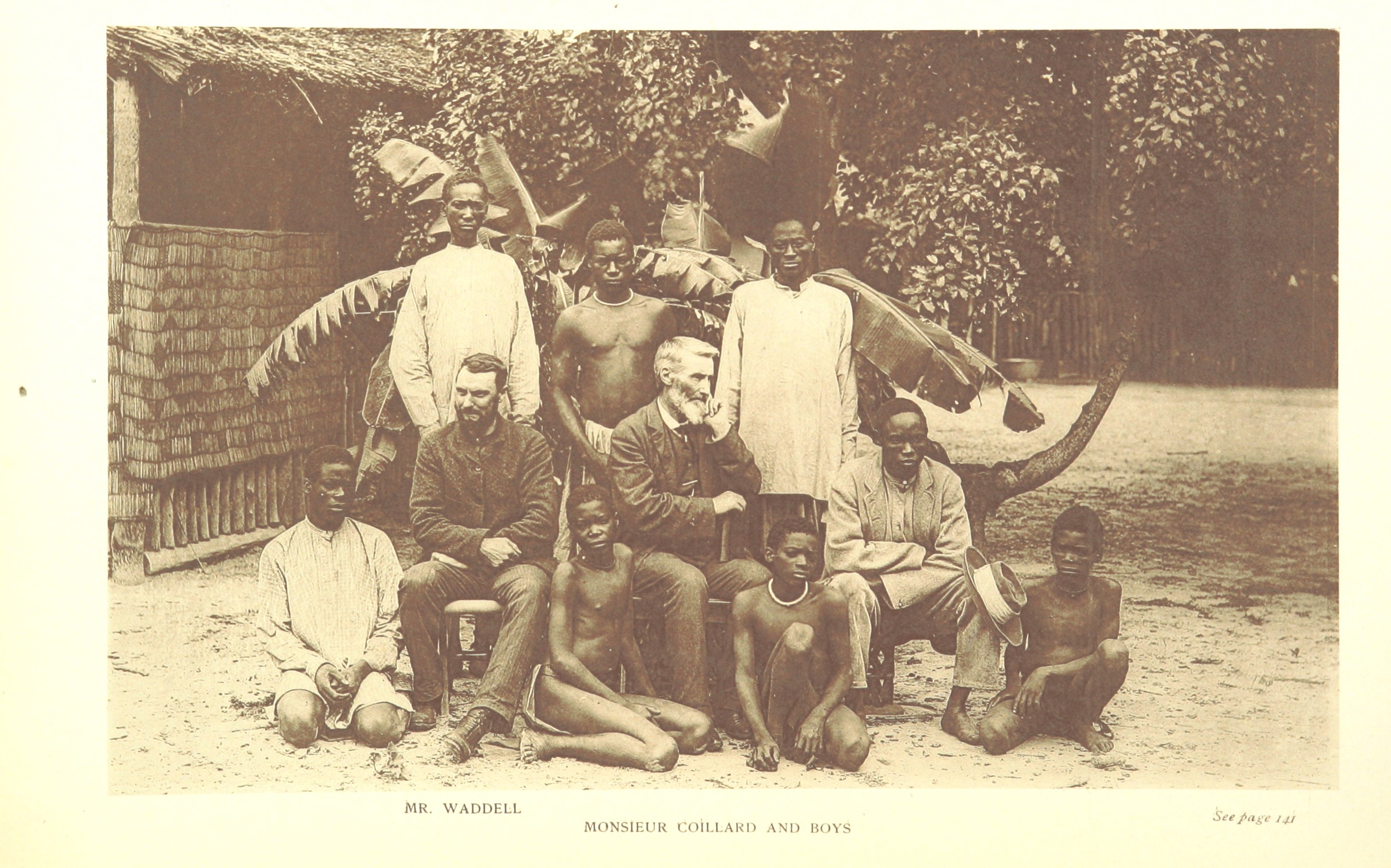 Image taken from: Mr Wadell and M. Coillard and boys Title: "Reality versus Romance in South Central Africa. An account of a journey across the Continent ... With ... illustrations, etc" Author: JOHNSTON, James - M.D., of Brown's Town, Jamaica Shelfmark: "British Library HMNTS 10097.dd.27." Page: 145 Place of Publishing: London Date of Publishing: 1893 Publisher: Hodder & Stoughton Issuance: monographic Identifier: 001888839